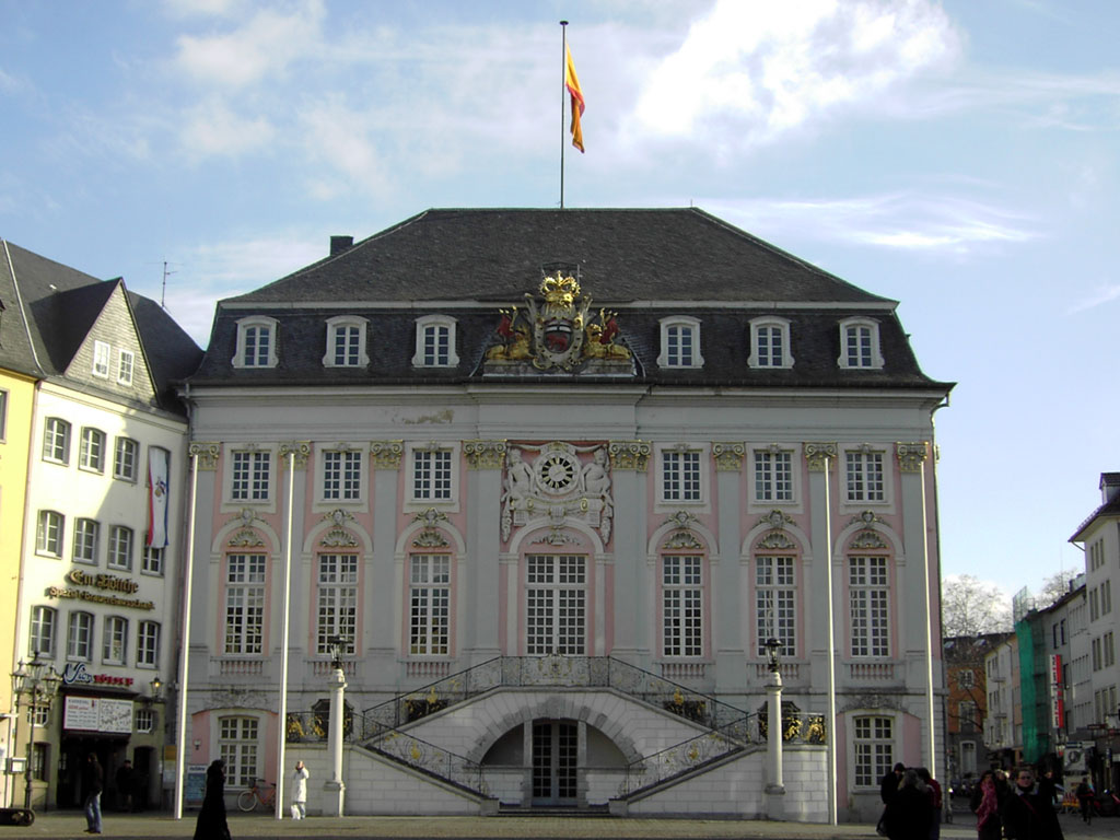 Altes Rathaus at Marktplatz is the former town hall of Bonn, Germany.